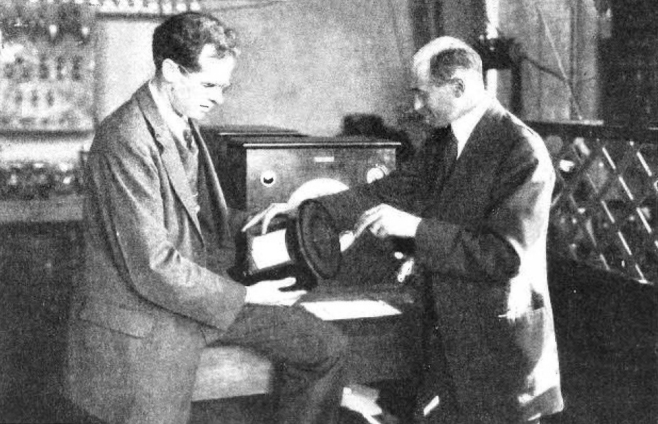 The first electrodynamic cone loudspeaker invented in 1925 at General Electric laboratories in Schenectady, New York, with inventors Edward W. Kellogg and Chester W. Rice. Modern loudspeakers are based on this design, which combined the moving coil driver mechanism with a paper cone diaphragm. They are holding the driver unit; the completed speaker with its 6 inch cone, is partially visible behind them. Kellogg and Rice invented the concept in 1921, but it took until 1925 to improve the acoustics enough to compete with existing horn loudspeakers. They filed for patents and announced the device in 1925. The speaker's advantage was that it had flatter frequency response than horn speakers, and could reproduce adequate bass without the enormous length of sound path required in horns. The first commercial model, the RCA Radiola Loudspeaker #104, went on sale in 1926 for $250, about $2000 in today's dollars. Information from History and types of loudspeakers, Edison Tech Center Caption: "THE INVENTORS AND THEIR NEW UNIT - the working mechanism of the vibrating cone loudspeaker is here shown in the hands of its co-inventors. In the background is shown another instrument fully set up in a cabinet"